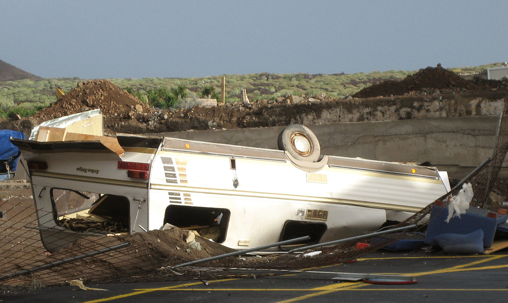 Damage Tropical Storm Delta (2005) Tenerife, Canarias